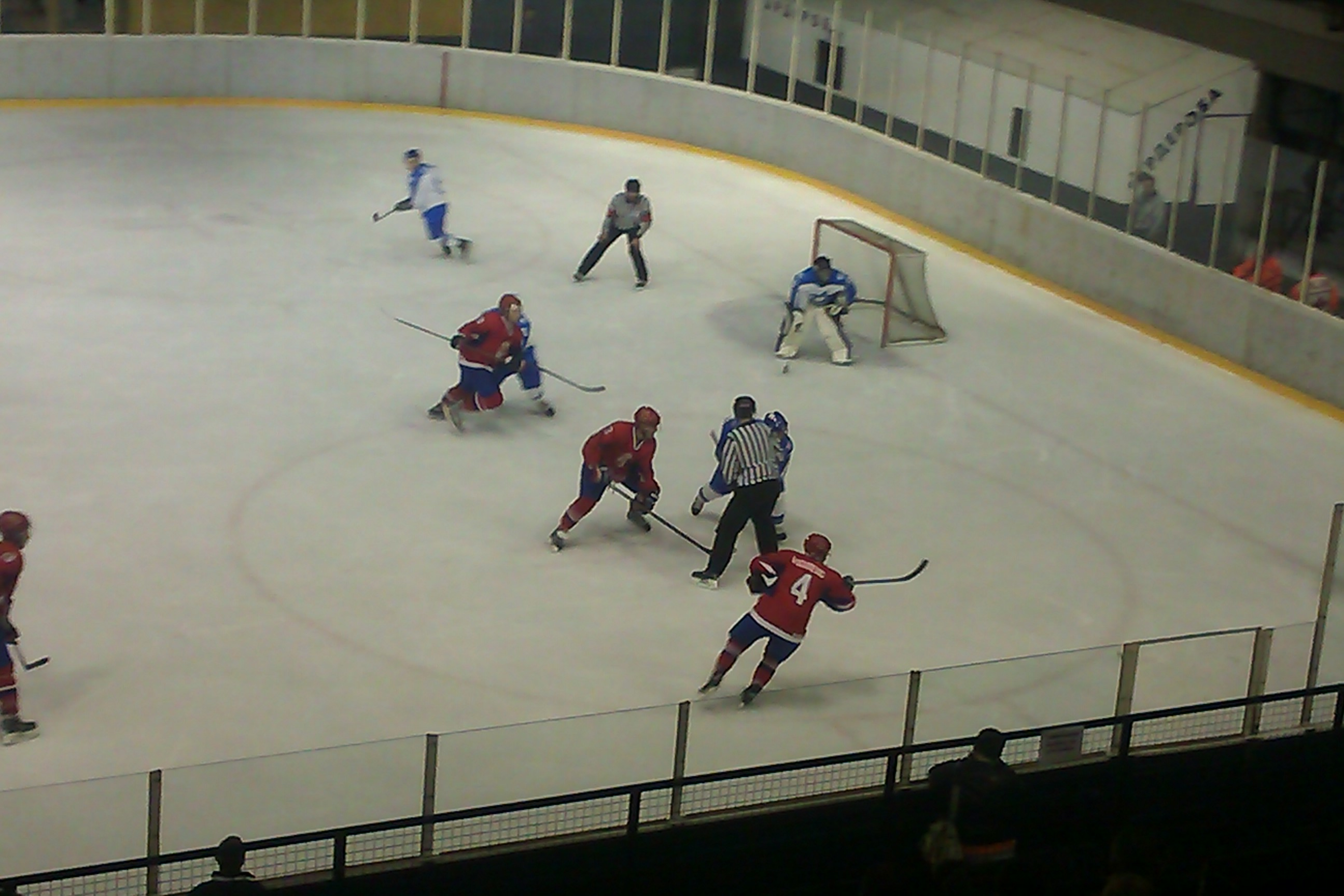 2014 IIHF World Championship Division II Serbia - Israel 10:6 in Belgrade 10. april 2014Српски (ћирилица): Светско првенство у хокеју на леду 2014 — Дивизија II, Србија - Израел 10:6 у Београду 10. априла 2014